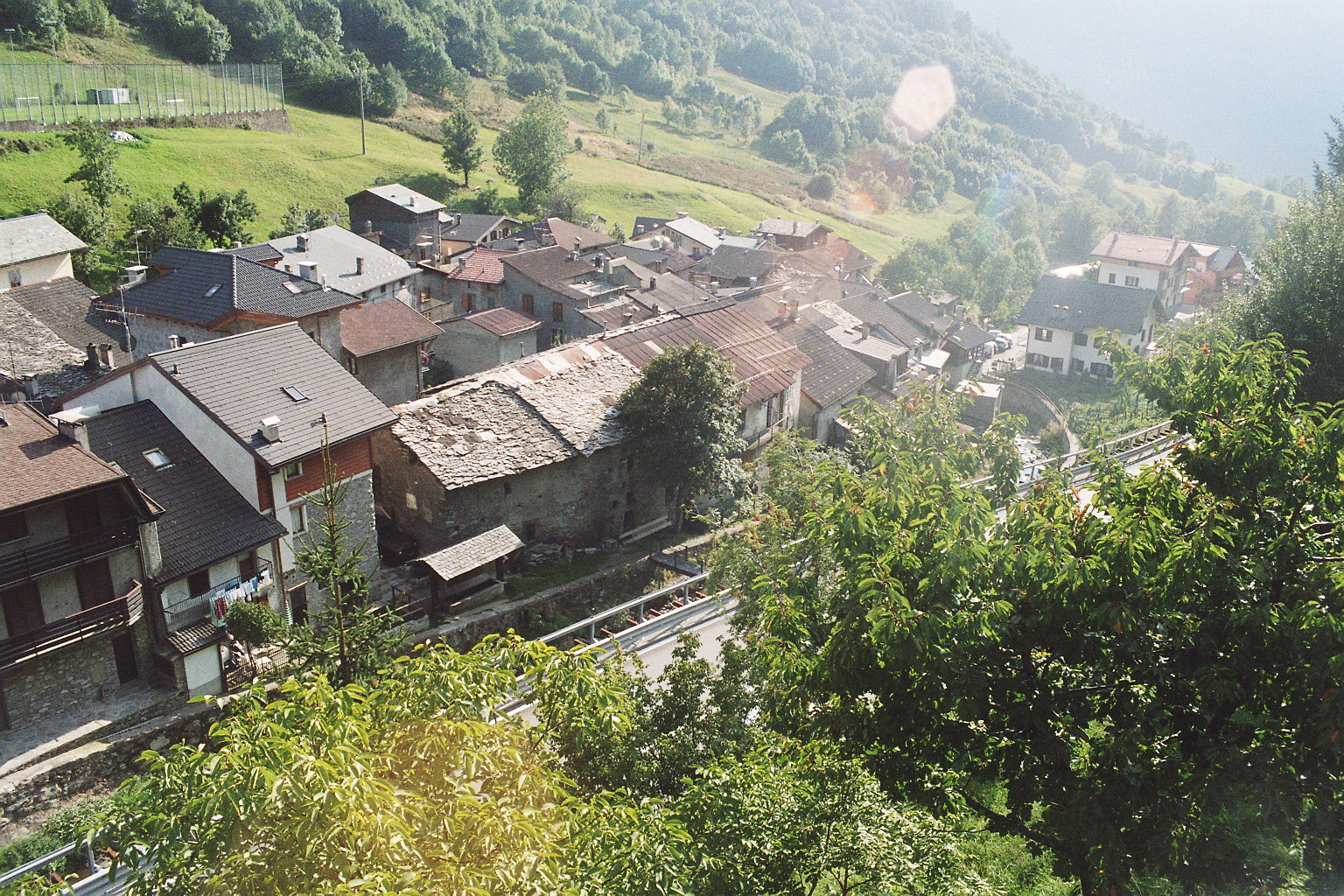 Part of Aprica downward direction of Sondrio